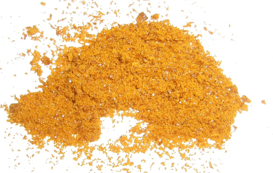 A photo of ferrocene in a powdered form.